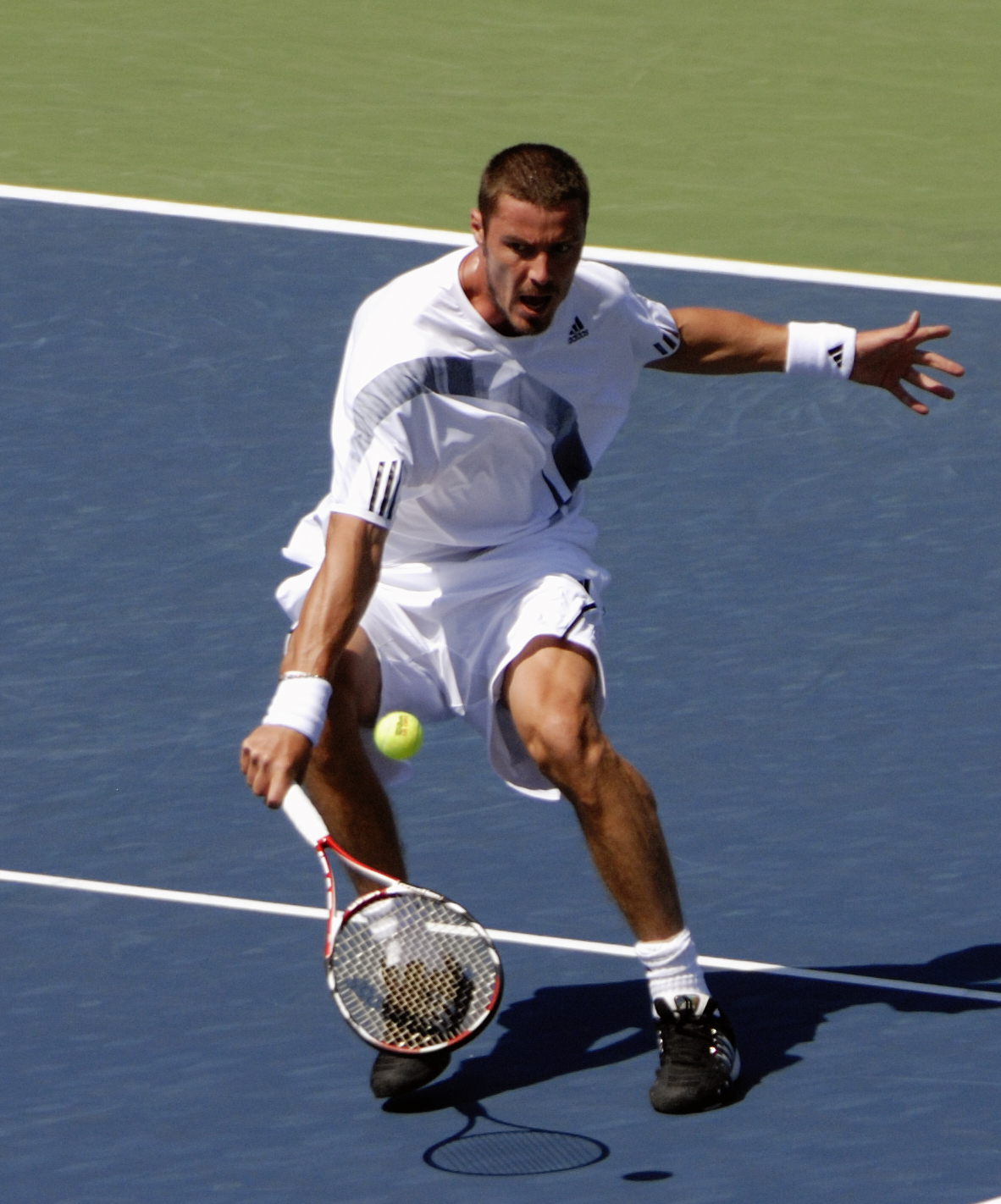 Marat Safin at the 2009 US Open